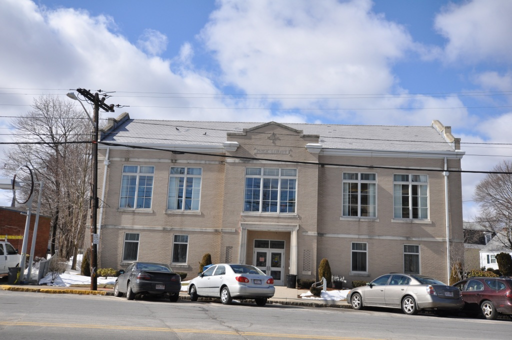 The public library in Saugus, Massachusetts.